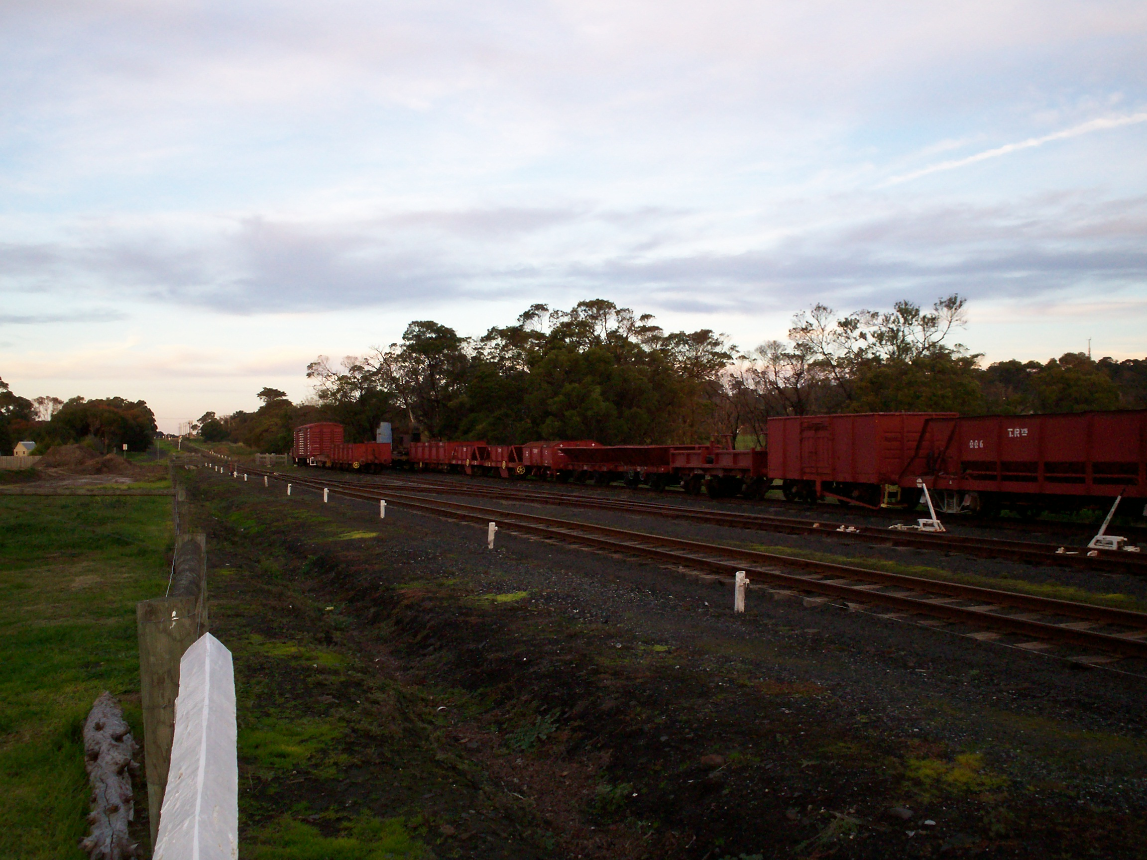 Taken by User:Michaelbeckham - 24/6/07